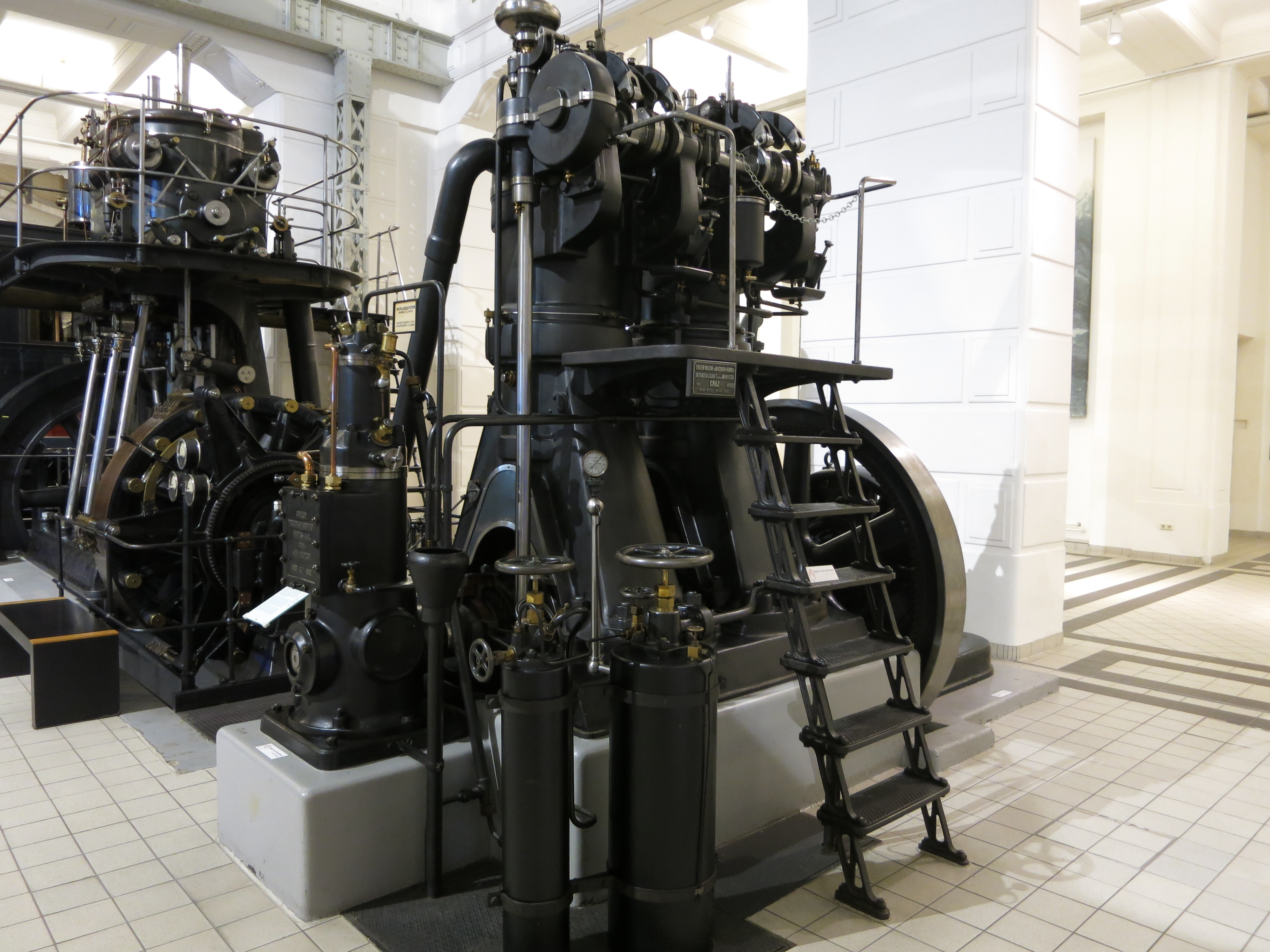 Diesel engine "Wärme-Motor Patent Diesel" (en: Thermal engine, Patent Diesel) built by the Grazer Waggon-&Maschinen-Fabriks-Aktiengesellschaft vorm. Joh.Weitzer GRAZ. No 561, 1915. Located at the technical Museum in Wien. Rated power: 58.84 kW